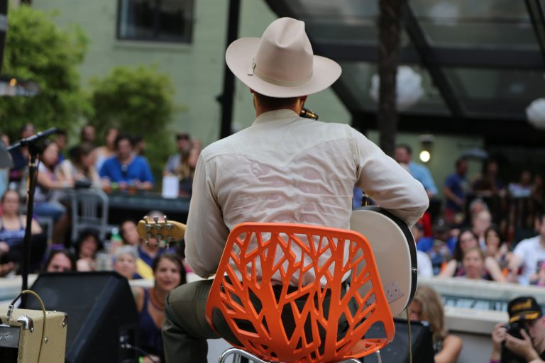 View from the stage at KXT Sun Sets 2016.